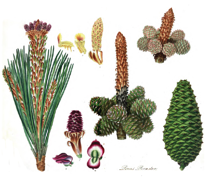 Pinus pinaster. Botanical illustration from: Description of the Genus Pinus, with directions relative to the cultivation, remarks on the uses of the several species and descriptions of many other new species of the Family of Coniferae illustrated with figures by Aylmer Bourke Lambert, Esq. London: Messrs. Weddell, MDCCCXXXII